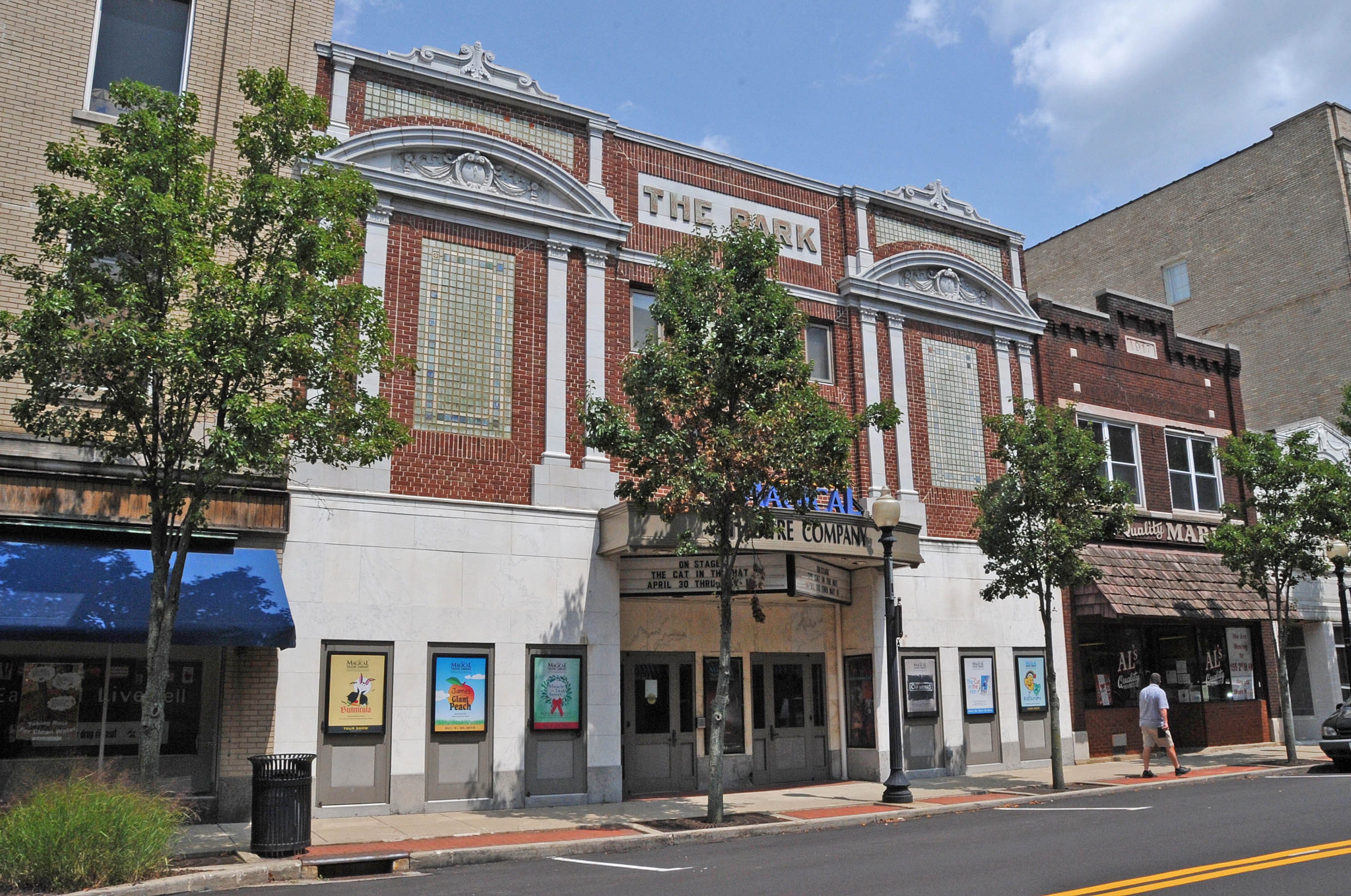 THE PARK THEATER BUILT IN 1919 WITH NEO-CLASSICAL FEATURES; IT IS STILL IN USE AS A CENTER FOR THE PERFORMING ARTS